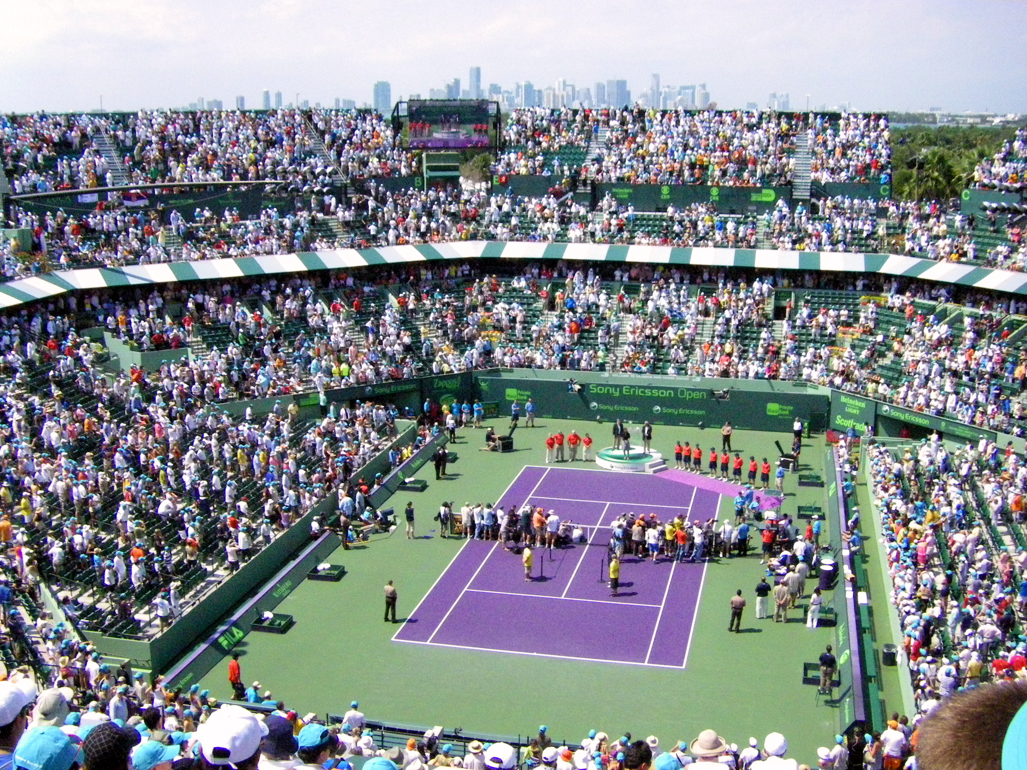 Sony Ericsson Open 2009 Mens Singles Final with Miami in the background.